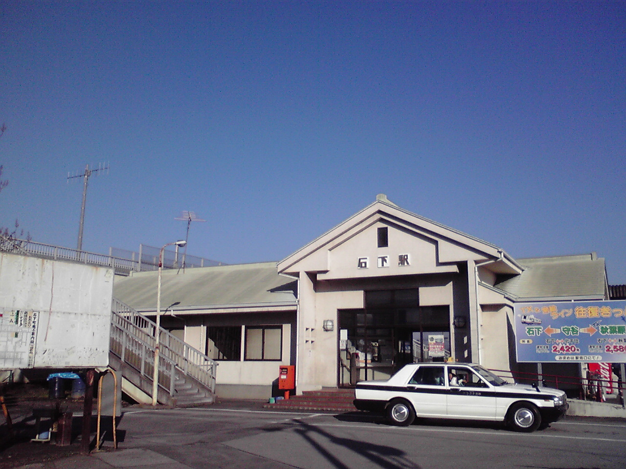 This is a train station in Ibaraki, Japan.